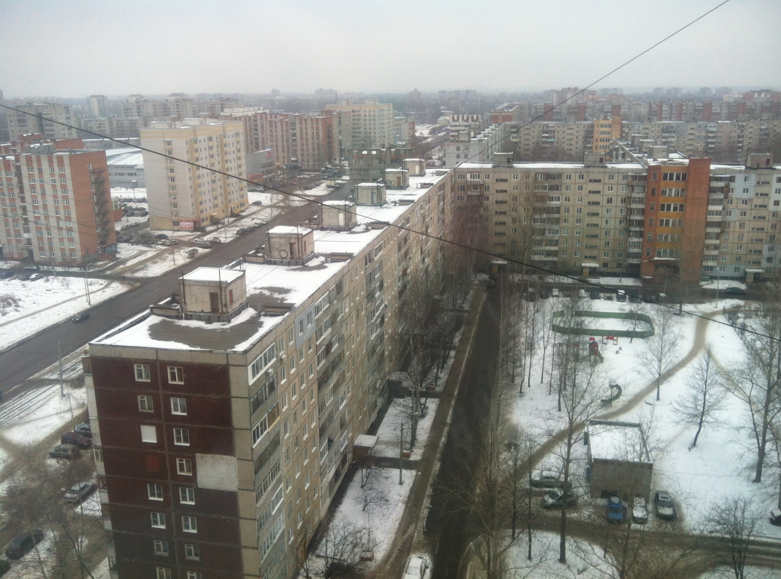 View of Bragino Yaroslavl